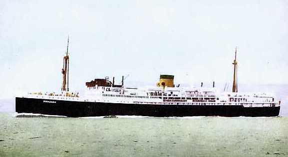 TSMV-Manunda, Australian registered and crewed passenger ship which was converted to a hospital ship in 1940.